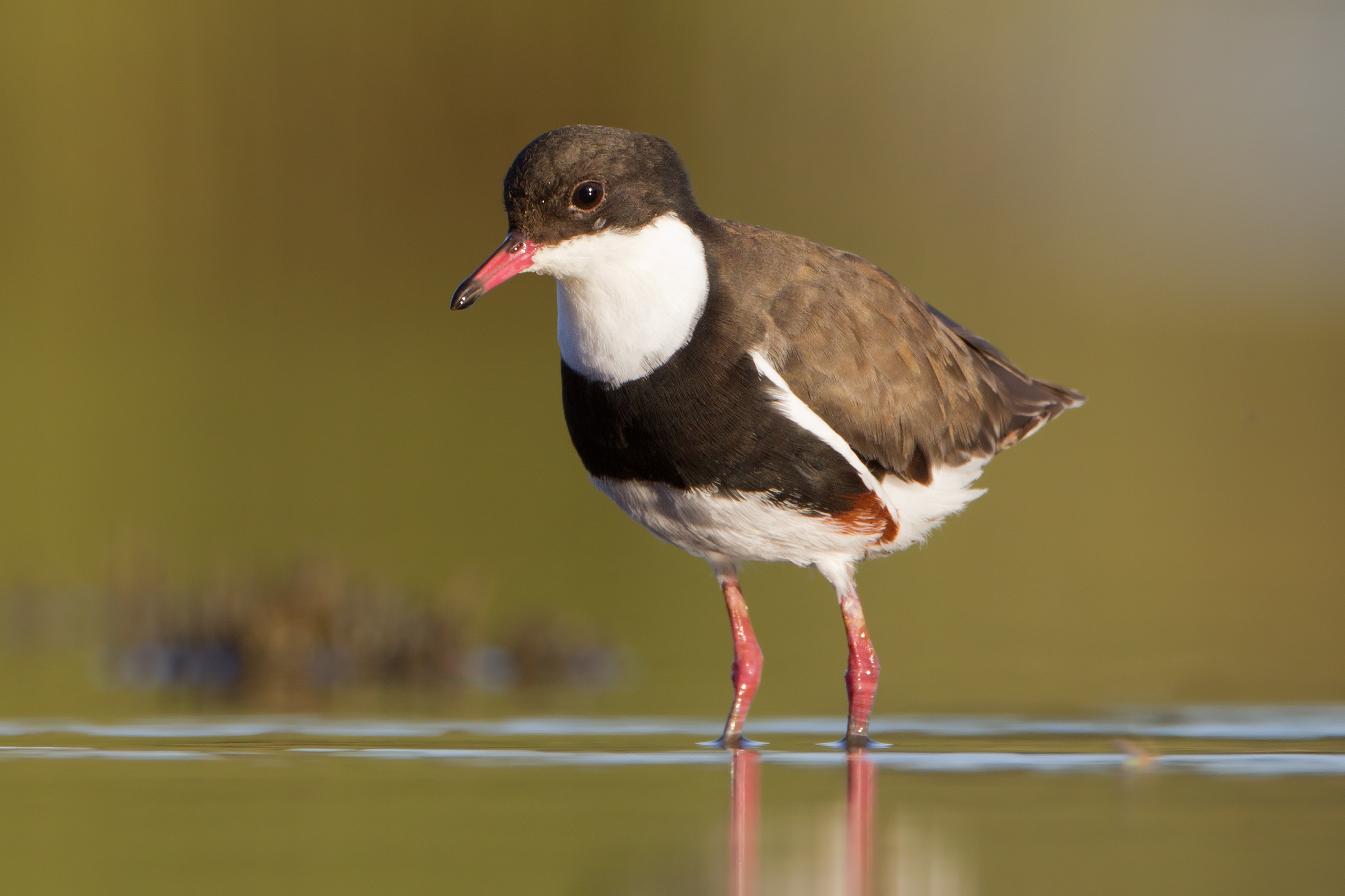 Red-kneed Dotterel (Erythrogonys cinctus), Chiltern, Victoria, Australia